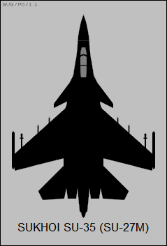 Su-35